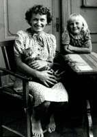 Photograph of the Danish sculptor Tove Ólafsson (1909-1992)